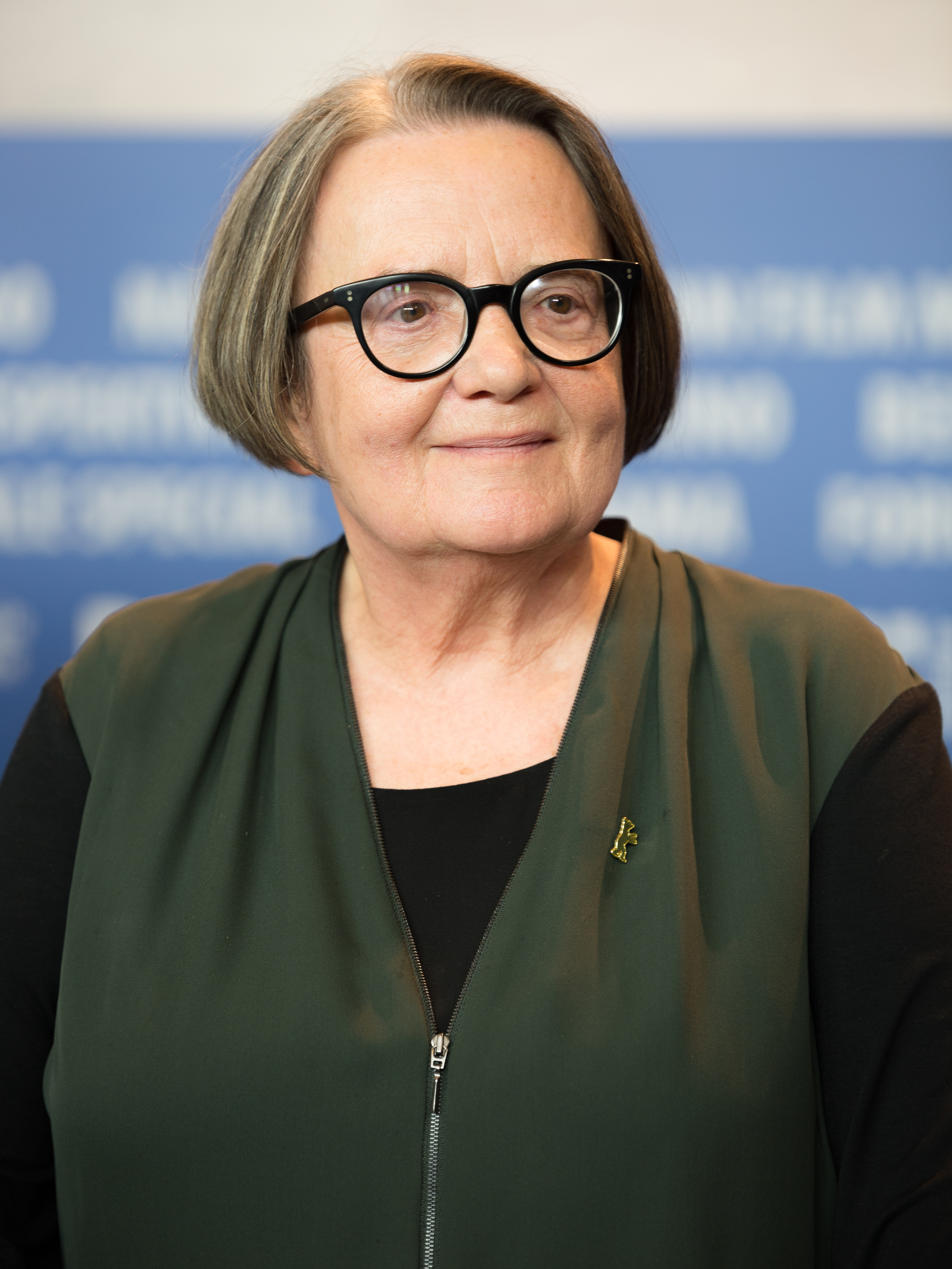 Director Agnieszka Holland at the presentation of the polish movie Spoor at the Berlinale 2017